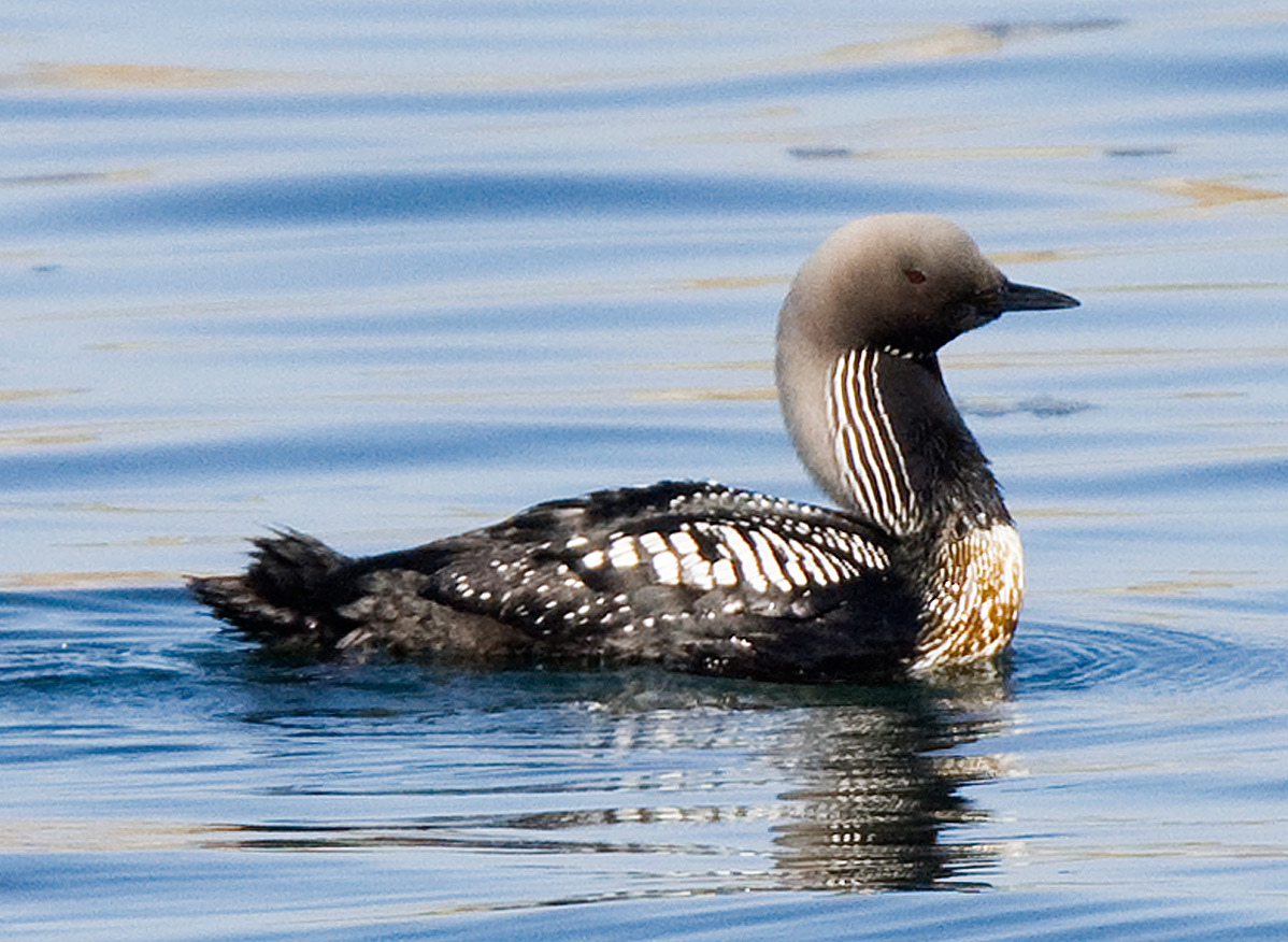 Pacific Diver (Gavia pacifica) also known as a Pacific Loon in Morro Bay Harbor, CA.